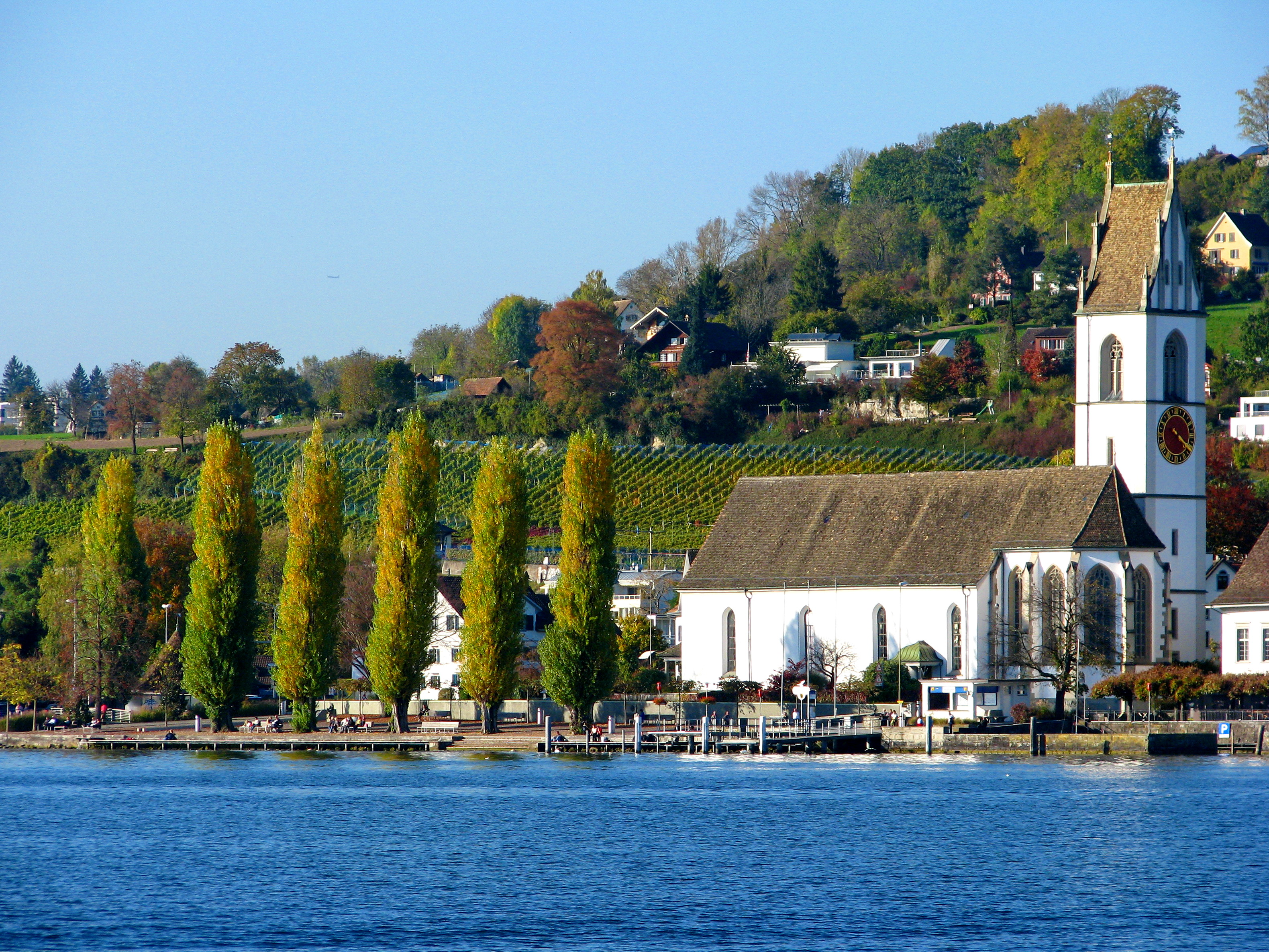 Lake Zürich : Meilen, protestant church and wine yards.